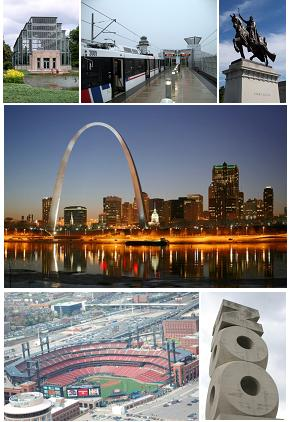 A montage of St. Louis